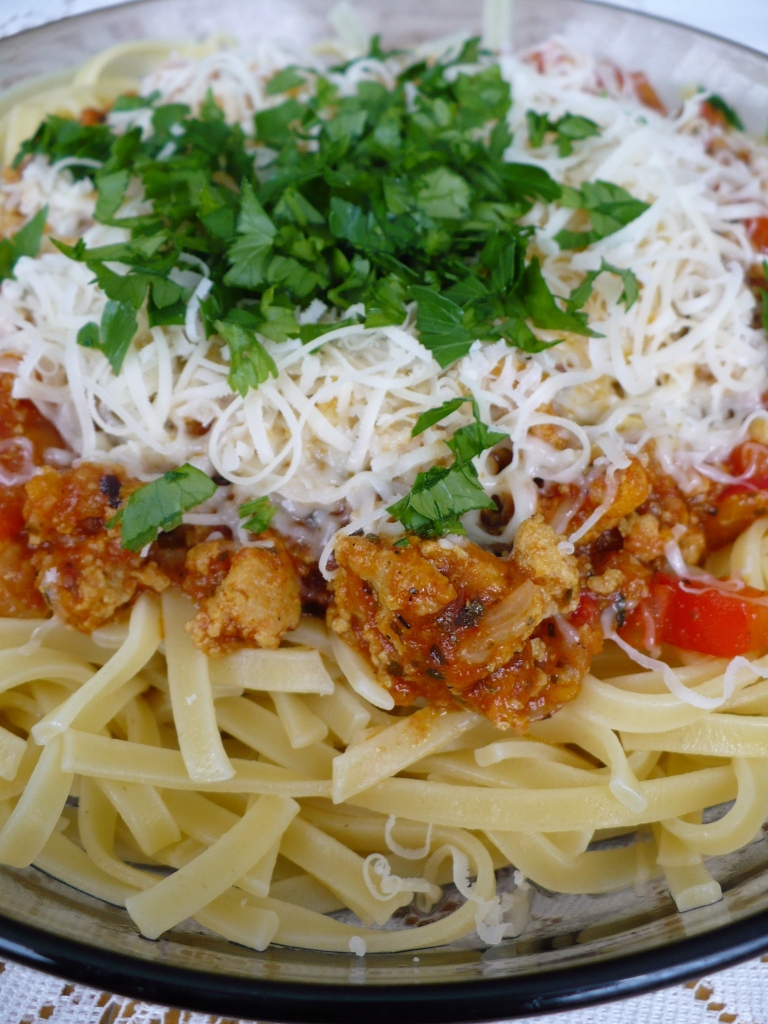 Tagliatelle with the Bolognese sauce